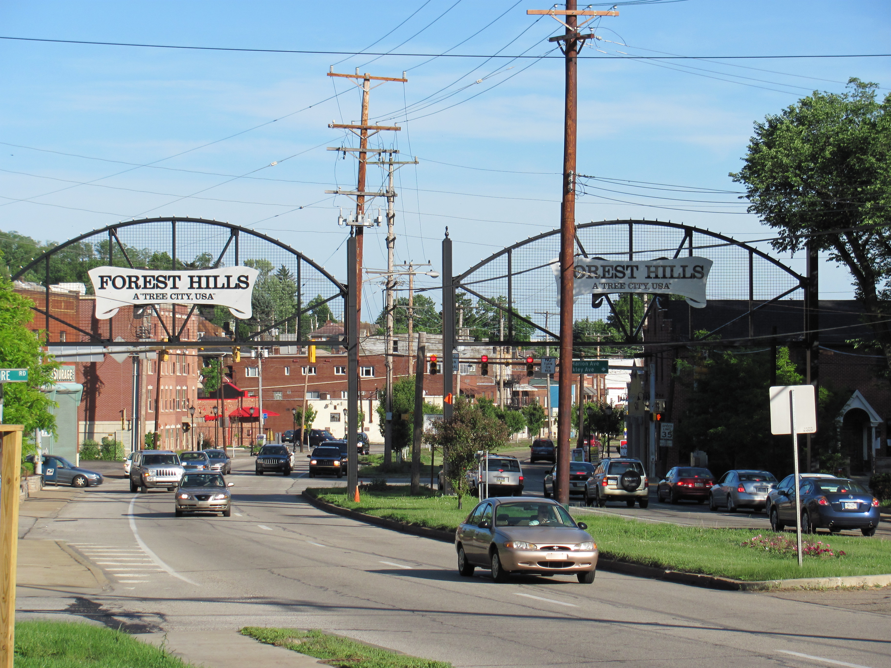 Ardmore Boulevard, Forest Hills, Pennsylvania